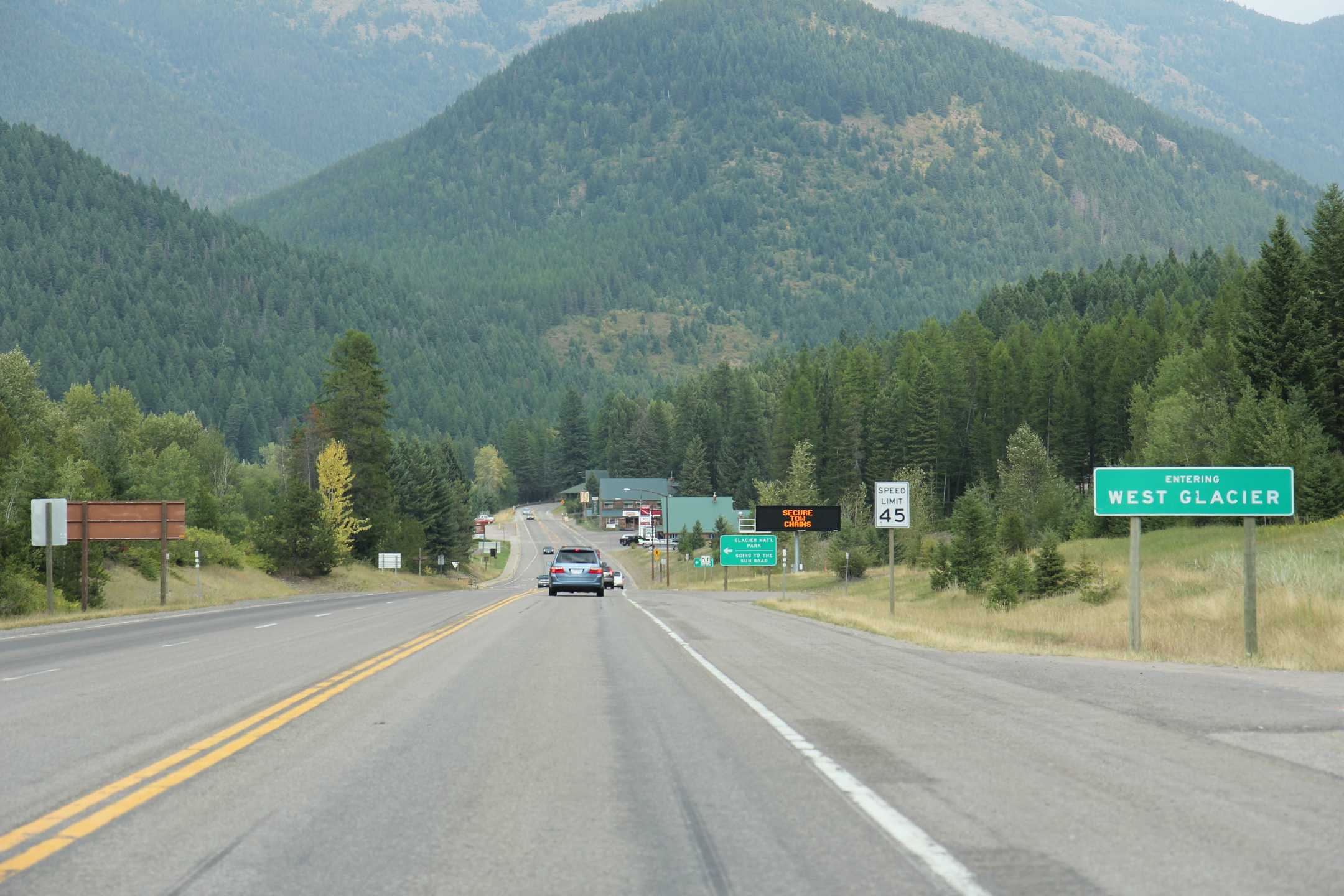 Looking east at the sign for West Glacier, Montana on U.S. Route 2.